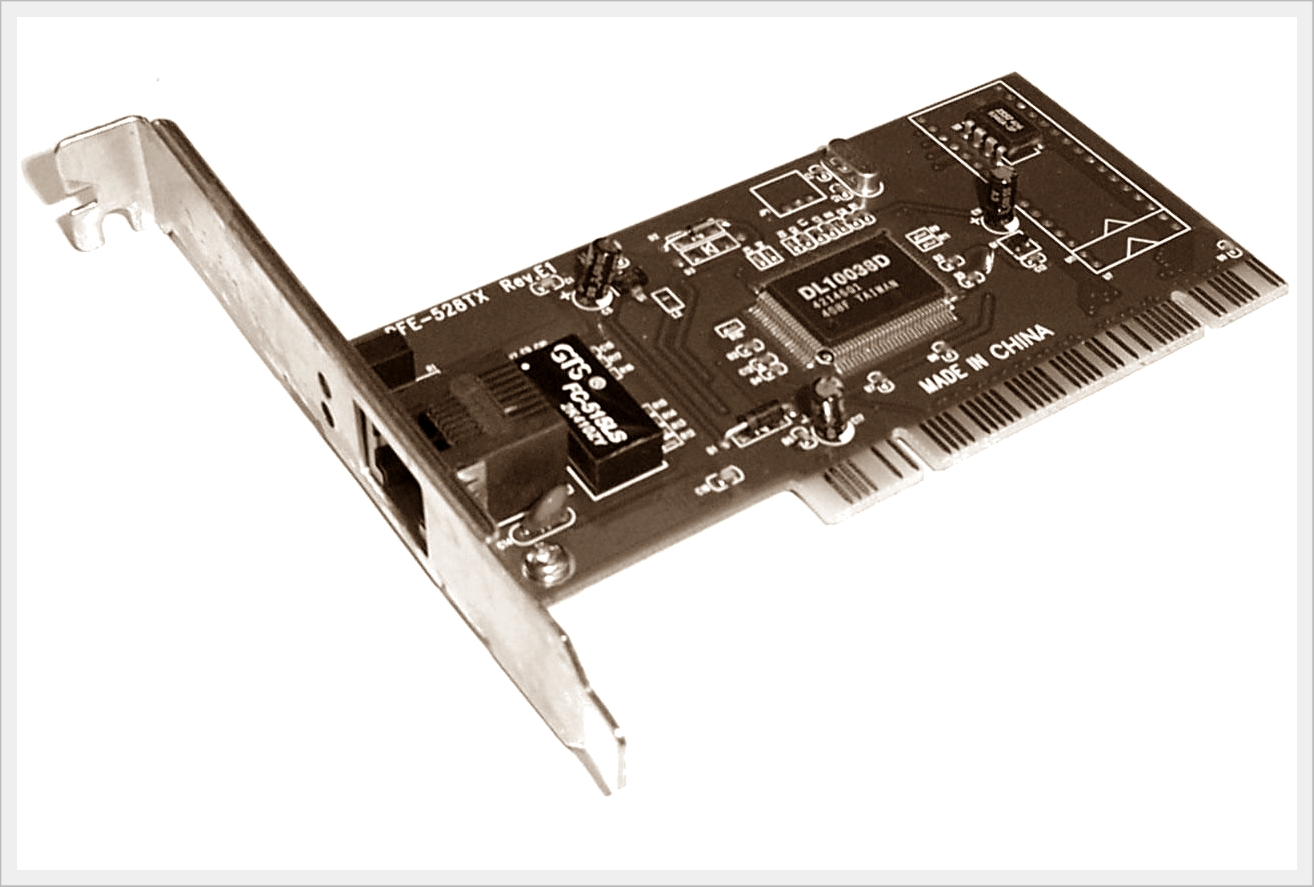 नेटवर्क इंटरफेस कार्ड - Network Interface Card (NIC)